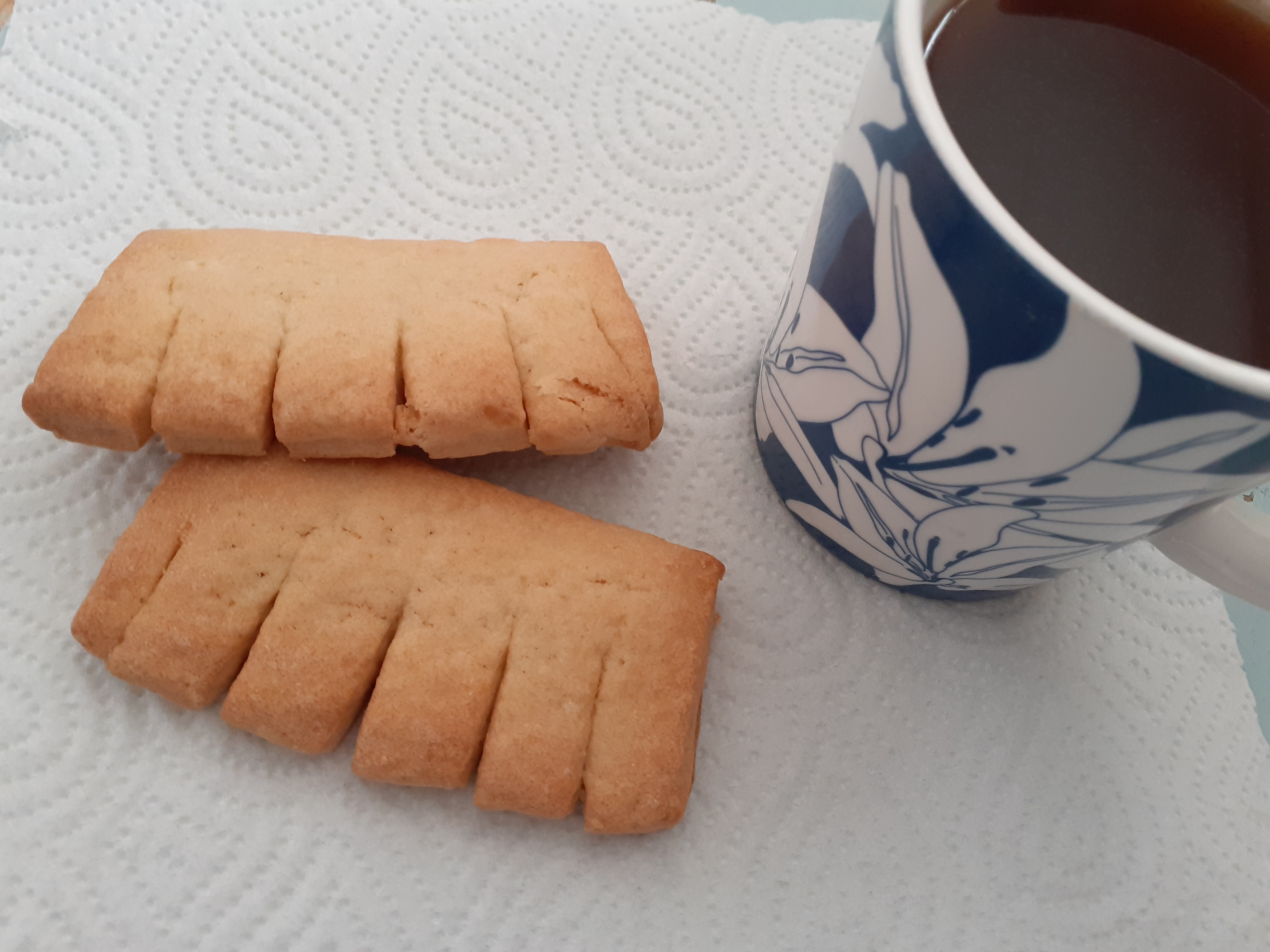 Kampanisu is a traditional pastry from southern Finnish Lapland